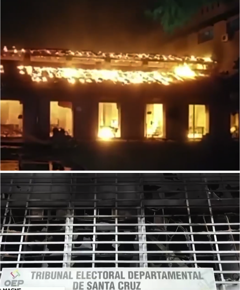 Violent protests in Bolivia in October 2019